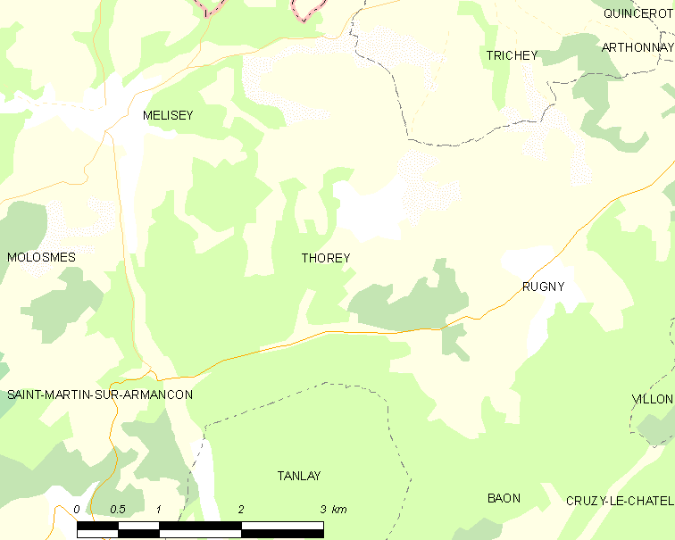 Map of French municipality Thorey